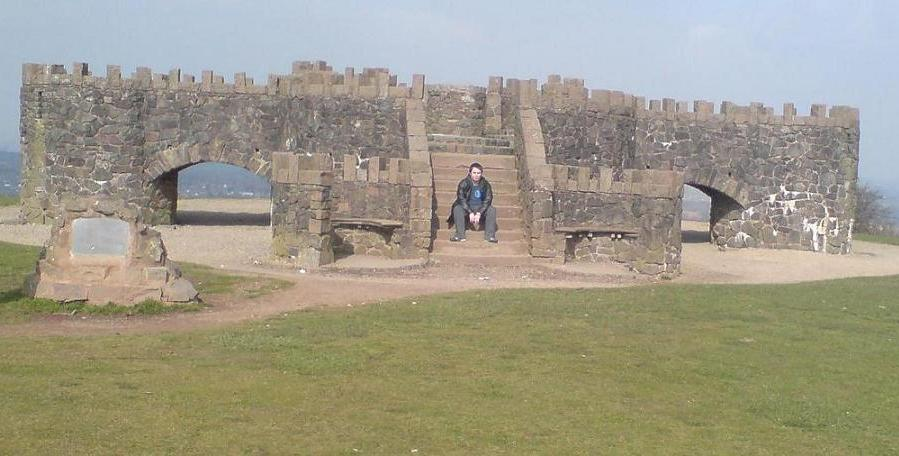 A photo of an elaborate toposcope at the Lickey Hills, Birmingham, UK taken in April 2007. The plaque indicating the distances to landmarks is on top of the circular column on top of the topscope above the seated persons head.